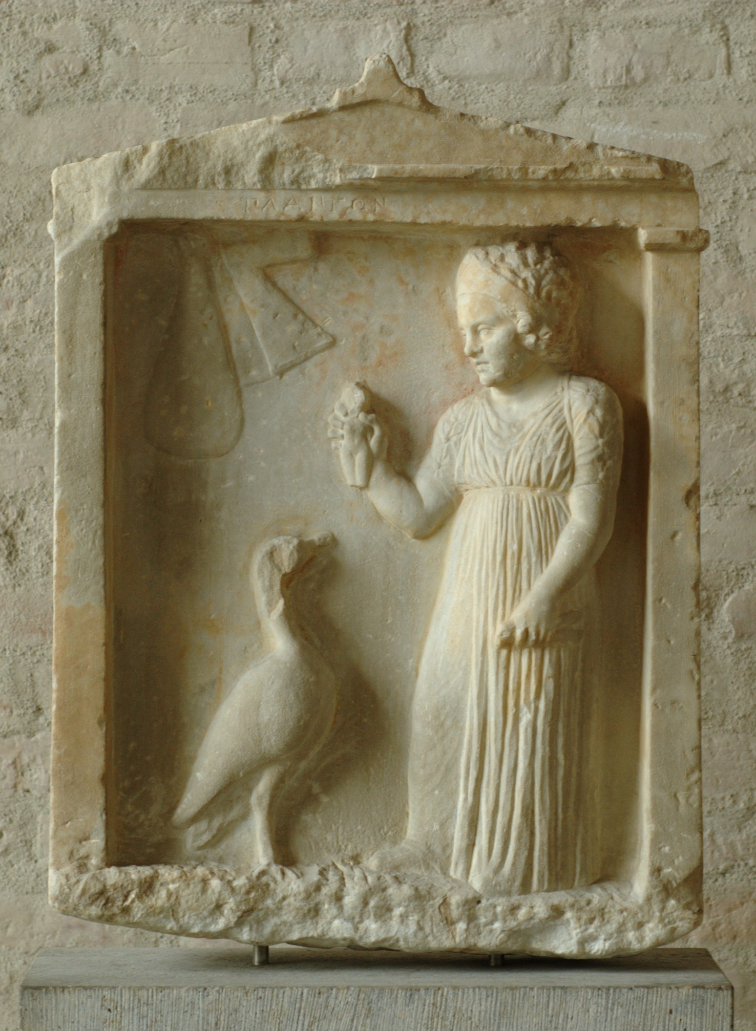 Funerary stele of Plangon (inscription ΡΛΑNΓΩΝ). The dead girl holds a puppet in the right hand and a little bird in the left one. A goose stands before her, and a bag with an uncertain object (toy?) is hanging at the wall. Athens, ca. 310 BC.